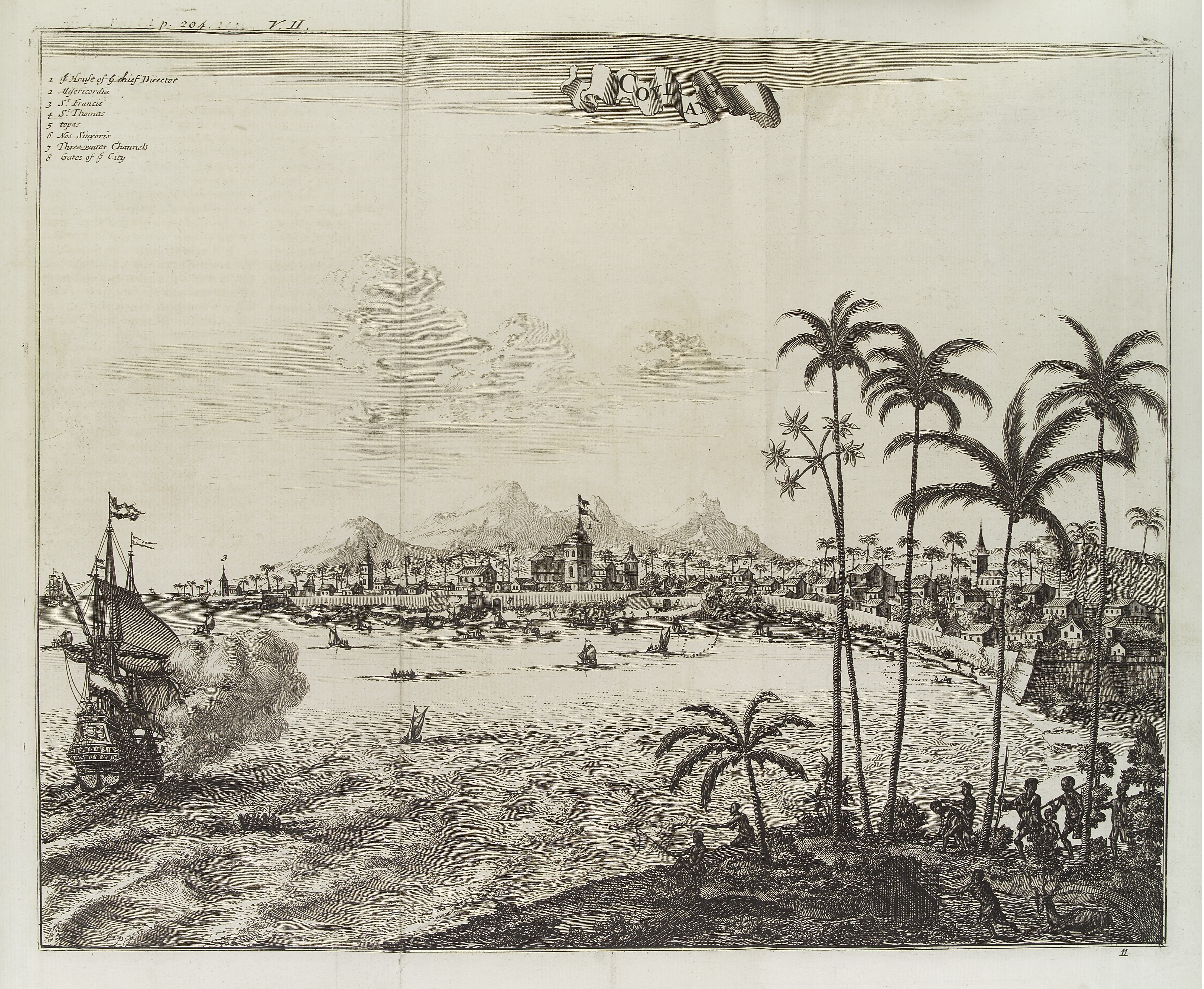 A view of Coylang Rare Books Keywords: India; Ship; Ships; Port; Harbour